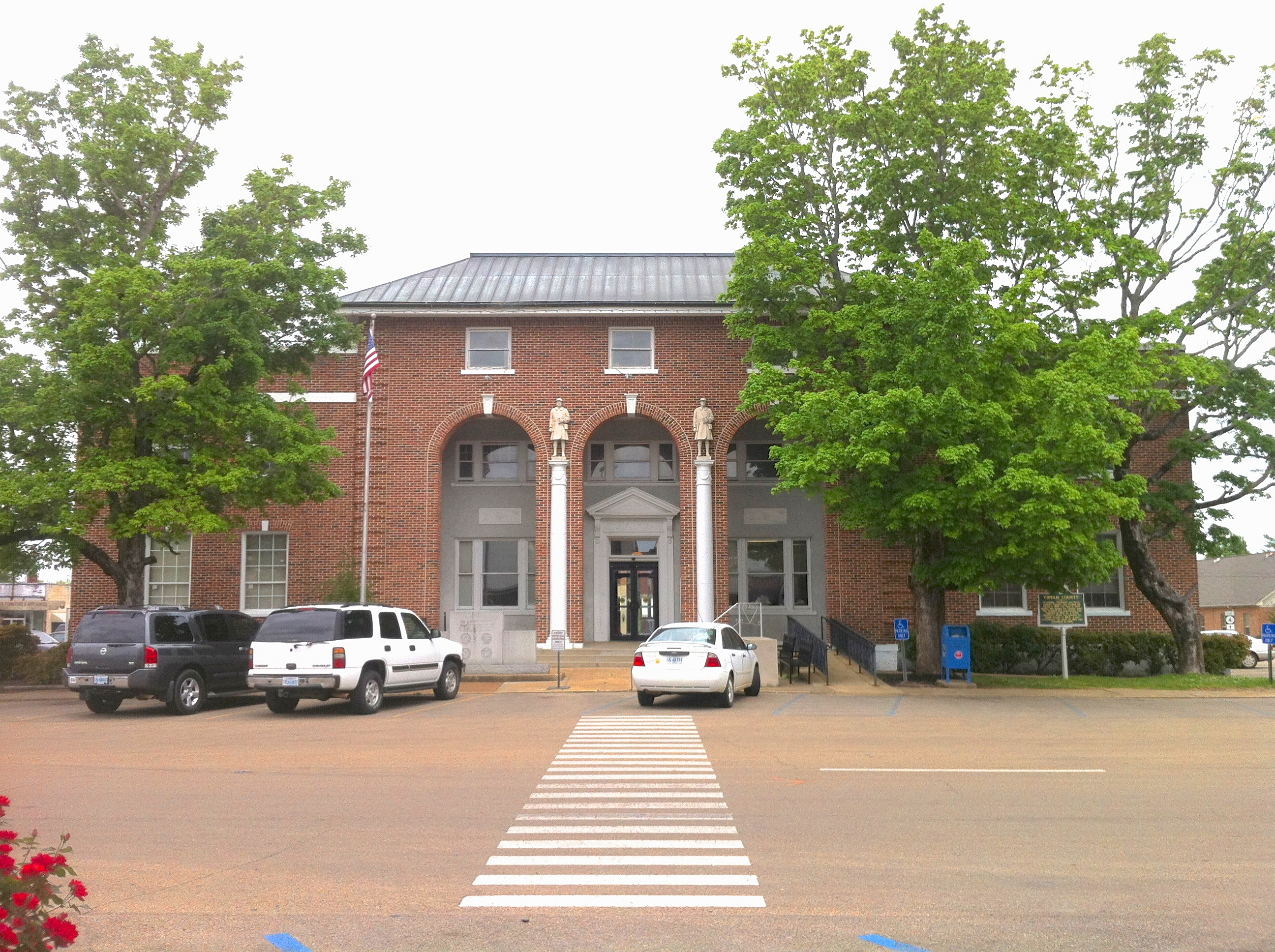 Tippah County, Mississippi Courthouse in Ripley, Mississippi, 2014.